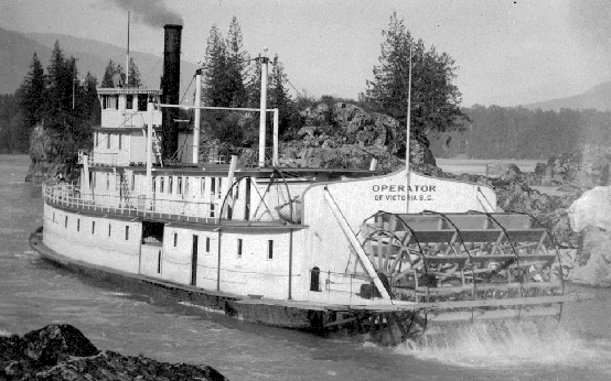 Photo taken 1911 Photograper Unknown BC Archives #C-05493 [1]